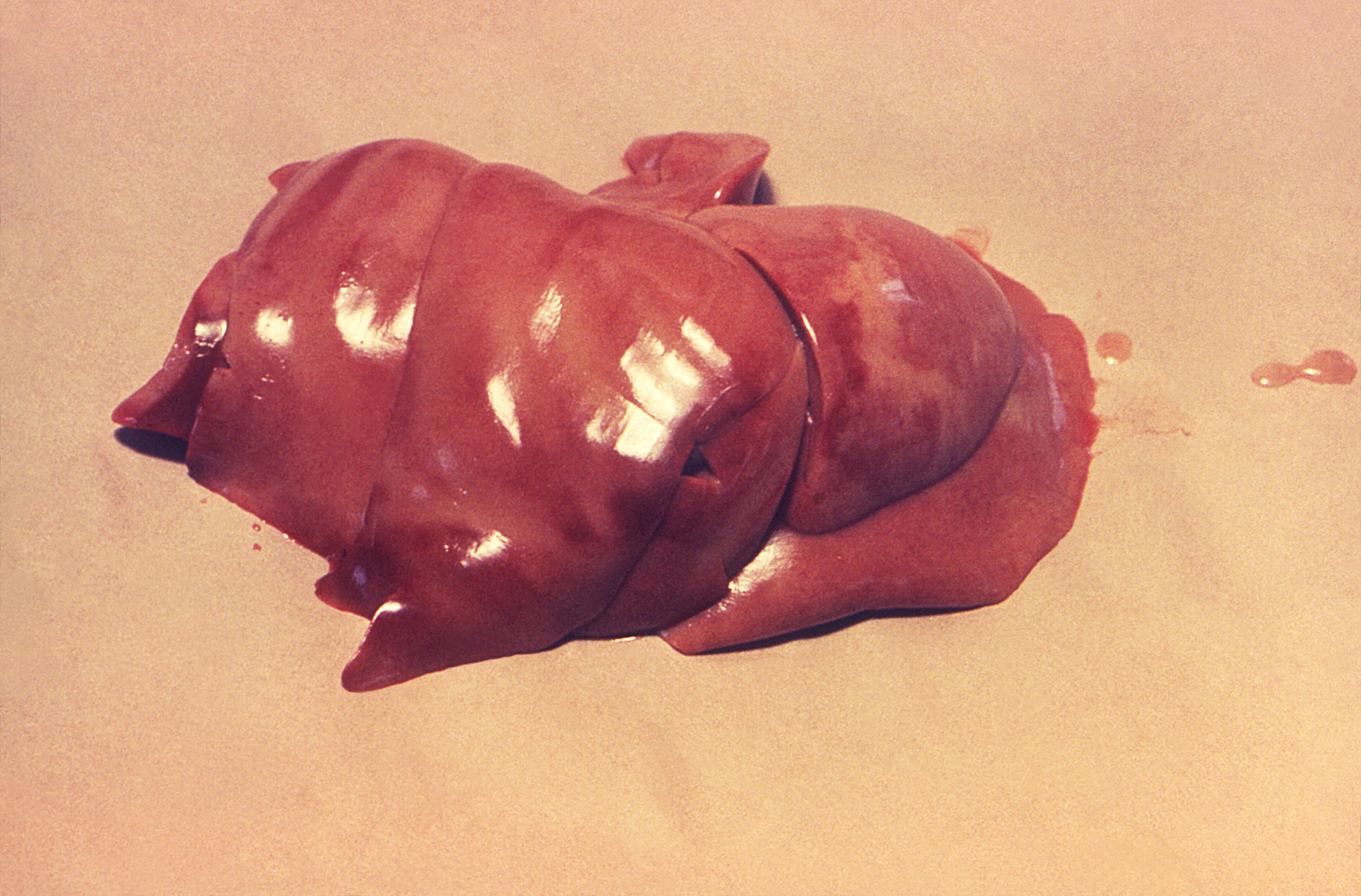 The liver depicted here was extracted from an unknown animal during a necropsy. The animal was a victim of the zoonotic infection leptospirosis, which is a bacterial infection caused by the spirochetal bacteria of the genus, Leptospira. Note the multiple areas of focal hepatic necrosis imparting a mottled appearance to the organ’s exterior.